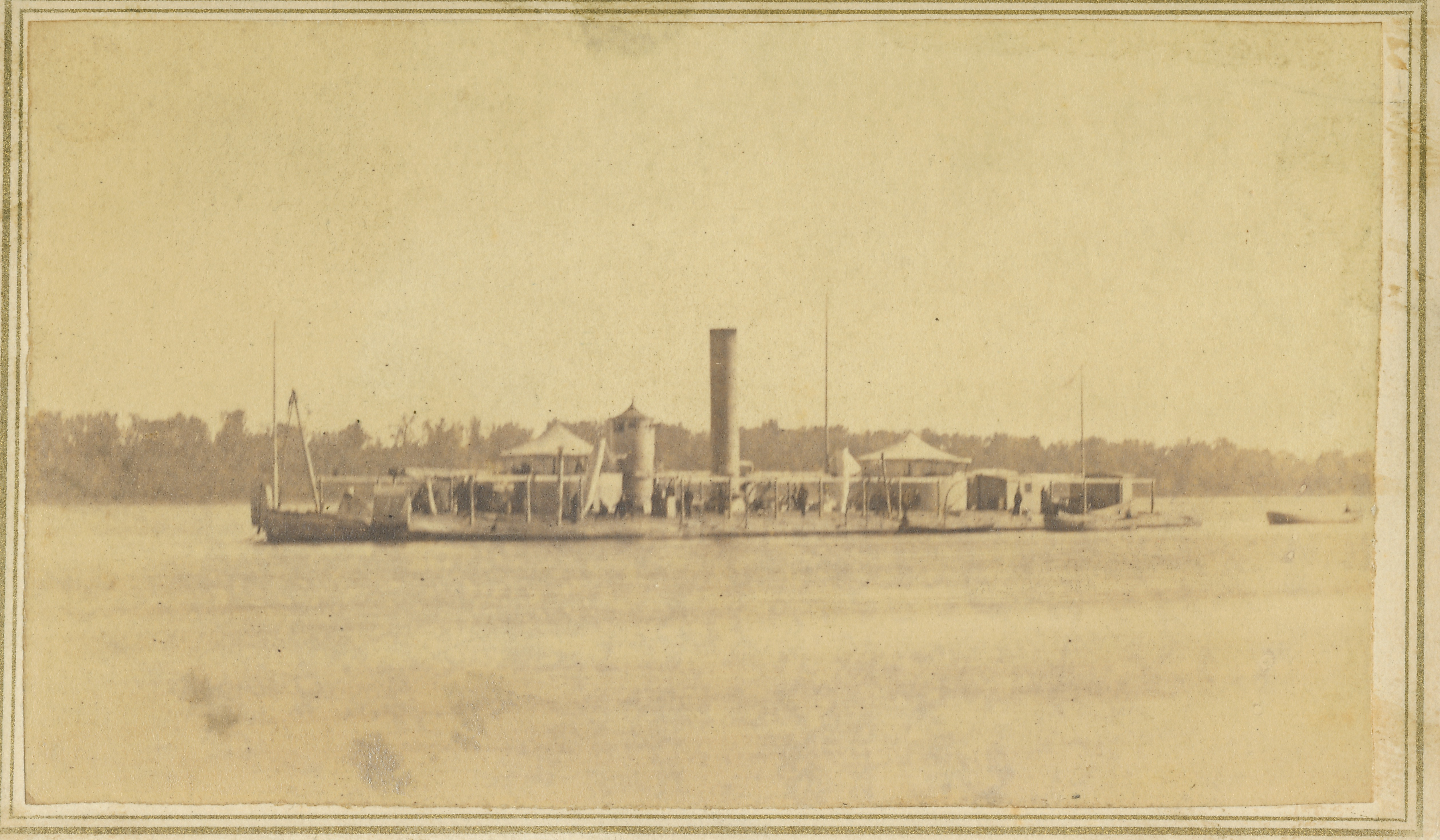 Photograph of a double-turret U.S. Monitor gunboat. The turrets have conical awnings over them and a single smokestack is seen in the center of the boat. The U.S.S. Milwaukee was one of the four 1300-ton double-turret ironclad river monitors built at Carondelet, Missouri by James. B. Eads. The photo was donated in 1917 by Nina de L. Henriques who identified herself as the granddaughter of Hyman H. Cohen, a clothier in St. Louis in the 1850s. The reference "Our Boat" written on the back may indicate that Cohen originally owned the picture and was one of the sailors on the boat during the war.Title: U.S.S. Milwaukee.